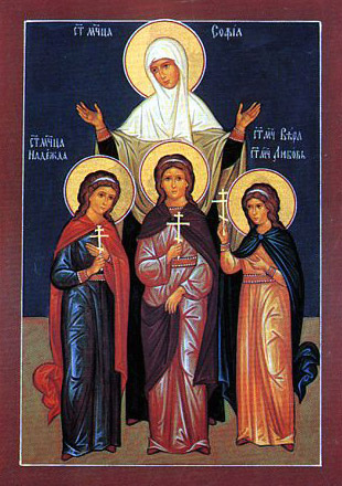 Icon of Saint Sophia with her daughters